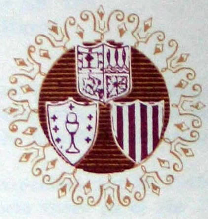 Galeusca anagram